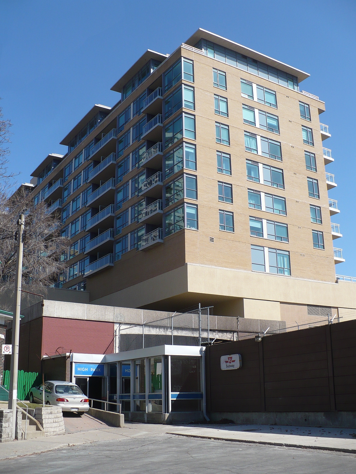 Entrance to High Park TTC subway station from Parkview Gardens in Toronto. Shows the apartment building constructed over the west end of the station.